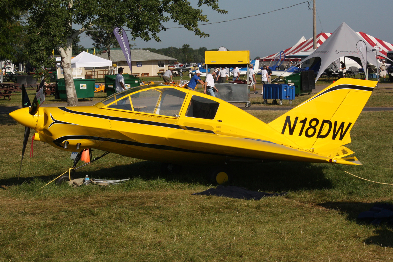 Dkye Delta Oshkosh, WI